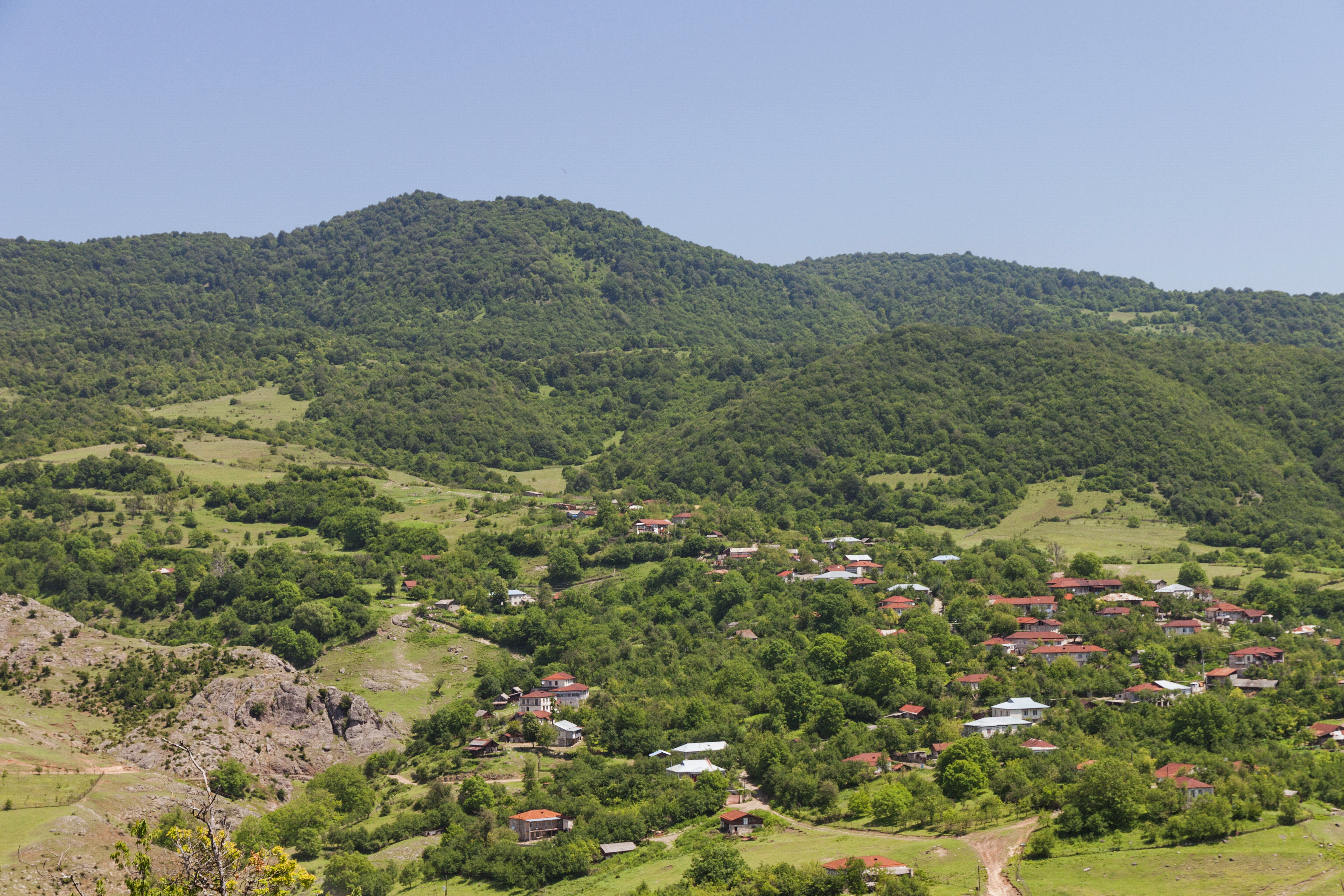 The views from the road between the Vank/Vəngli village and the Gandzasar monastery. Nagorno-Karabakh.